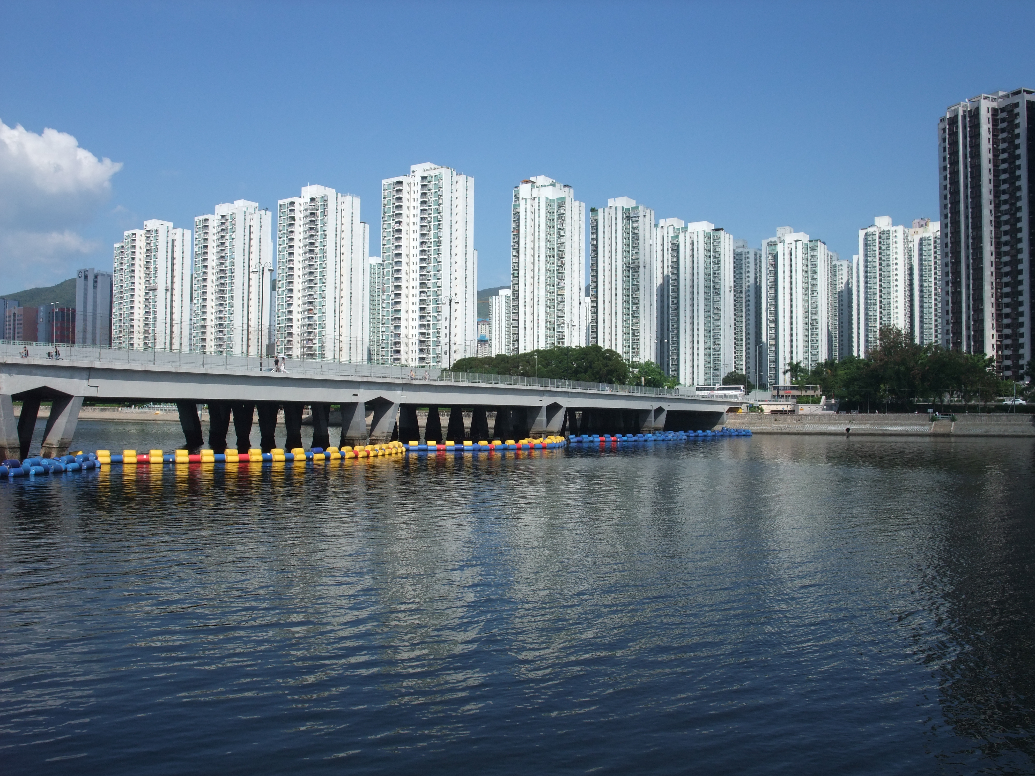 Block of Shing Mun River Channel under Banyan Bridge, 2008 Summer Olympics